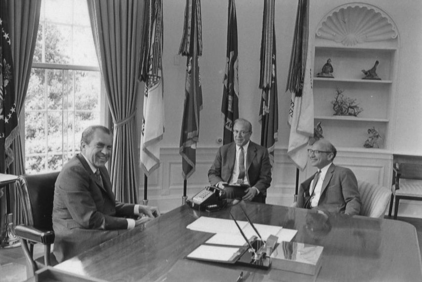 ● Frame(s): WHPO-6503-02A-06A, President Nixon seated at his Oval Office desk during a meeting with George Shultz and Milton Friedman. 6/8/1971, Washington, D.C., White House, Oval Office. President Nixon, George Shultz, Milton Friedman ● Frame(s): WHPO-6503-06, President Nixon seated at his Oval Office desk during a meeting with George Shultz and Milton Friedman. 6/8/1971, Washington, D.C., White House, Oval Office. President Nixon, George Shultz, Milton Friedman Related Materials: Master Print File